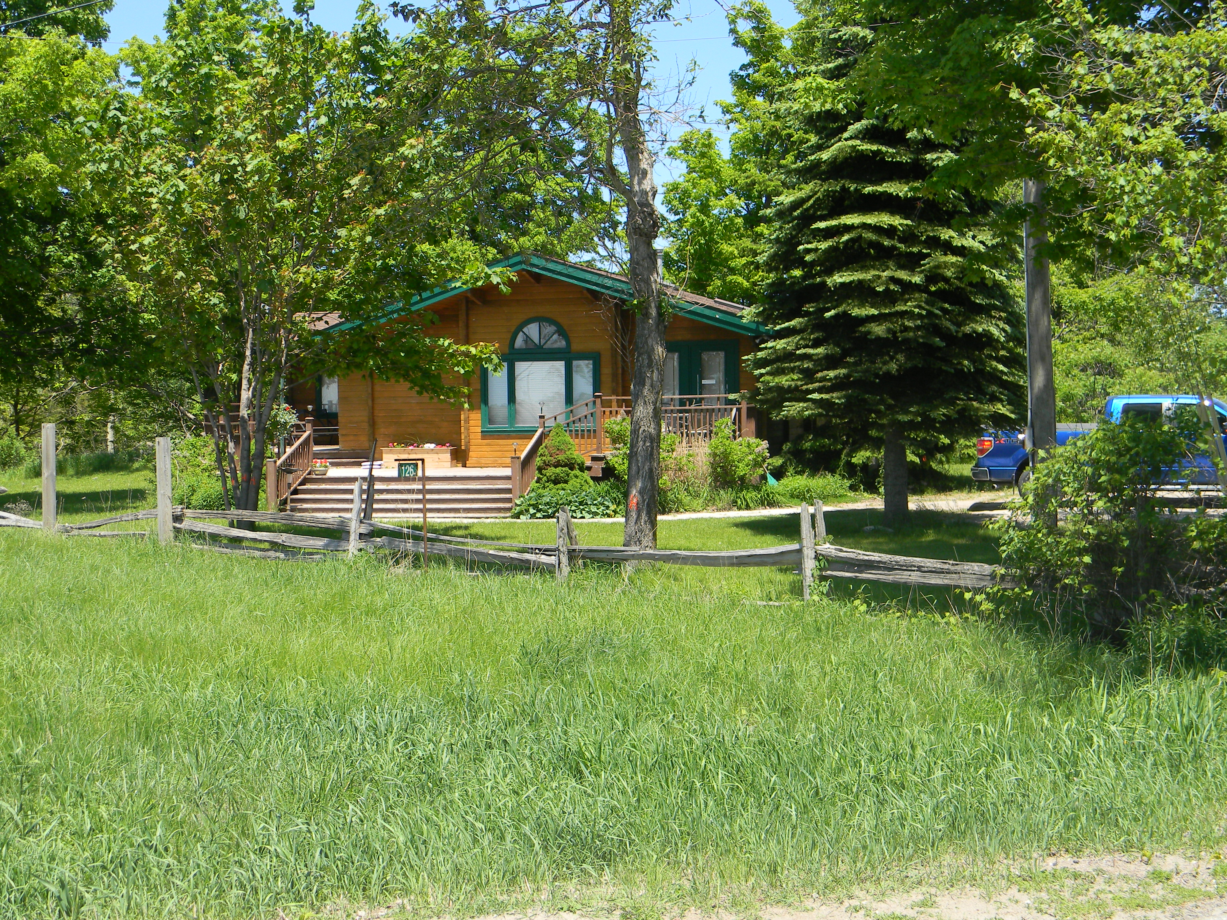 Aberfoyle is the administrative centre for Puslinch Township in Ontario, Canada